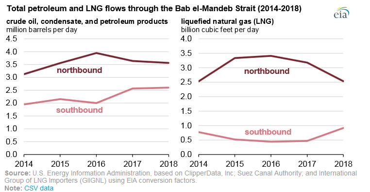 In 2018, an estimated 6.2 million barrels per day (b/d) of crude oil, condensate, and refined petroleum products flowed through the Bab el-Mandeb Strait toward Europe, the United States, and Asia, an increase from 5.1 million b/d in 2014. August 27, 2018